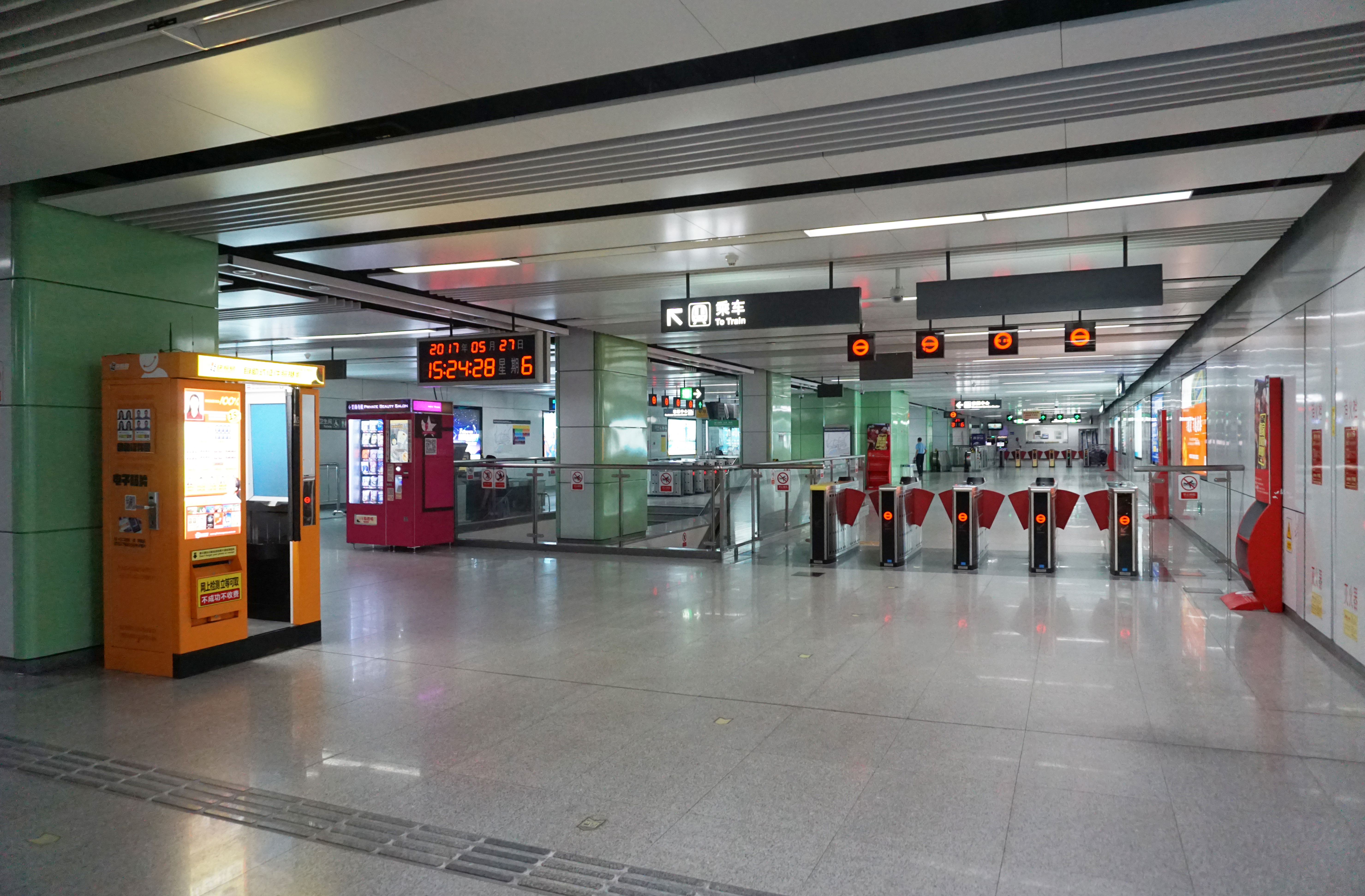 Yijing Station in Luohu District, Shenzhen.